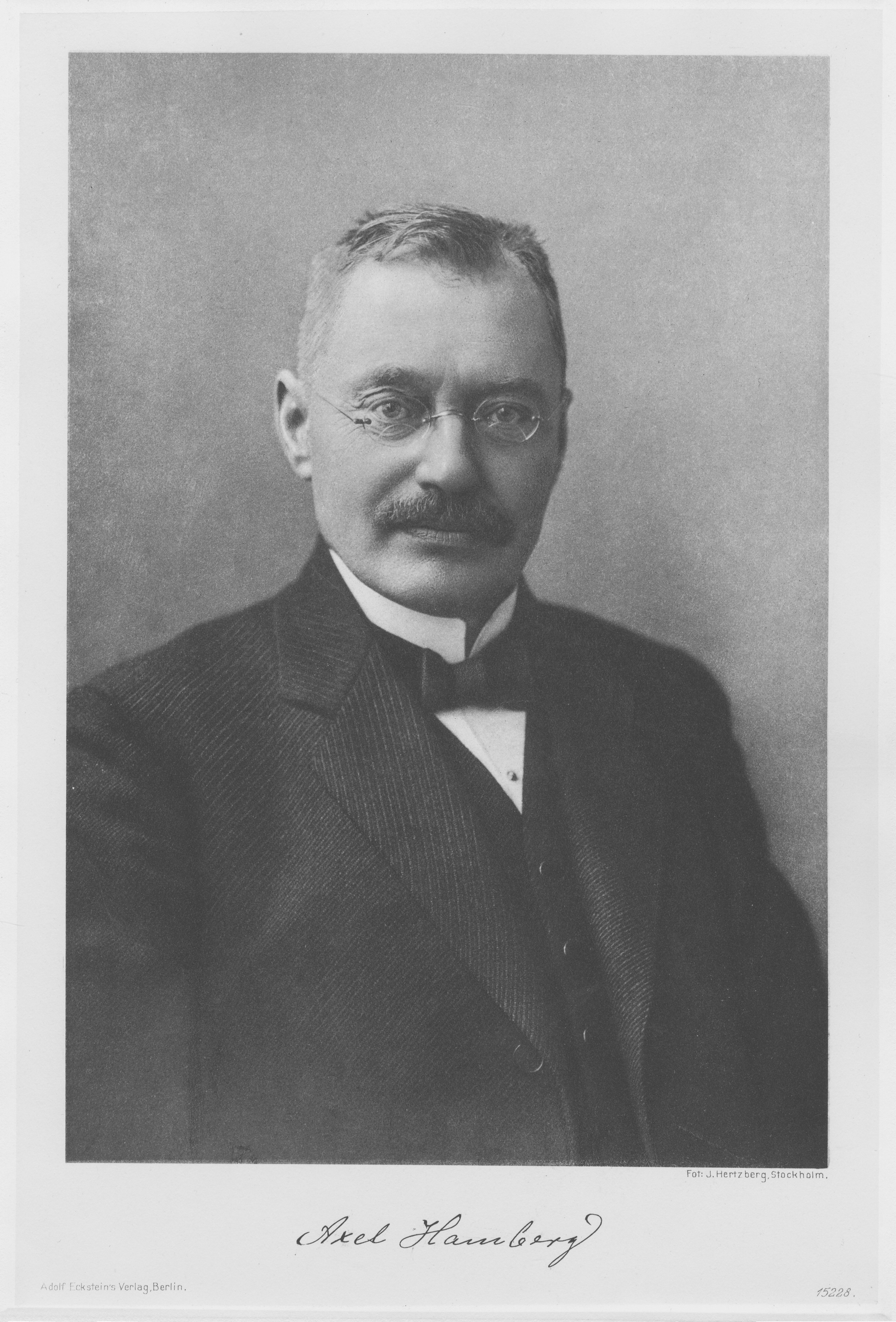 Portrait of Axel Hamberg, 1910.